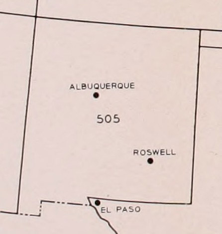 Area code 505 (=New Mexico), as 1952.